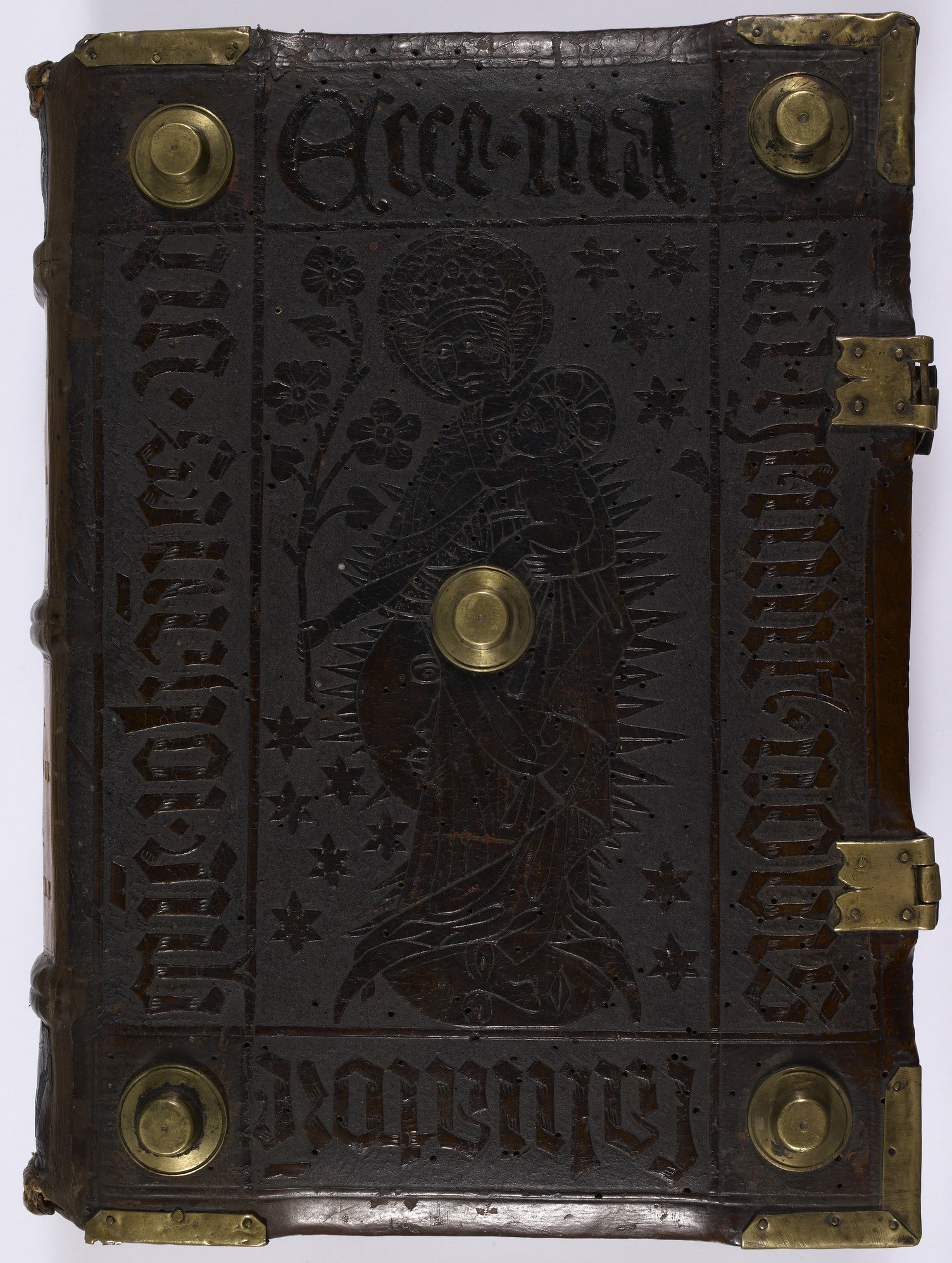 Front cover- embossed leather cover, with brass studs and corner pieces. In the centre is the Virgin, crowned, with Christ in her arms. The sun, moon, and stars are represented in the background